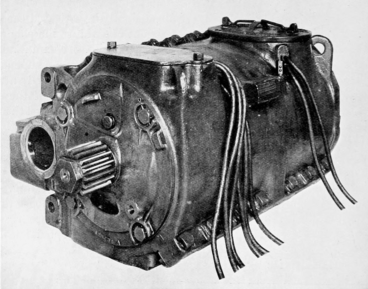 see image title - first number is figure or diagram number. See list of illustrations in source for page number in source - relevent text content is near to image in the source